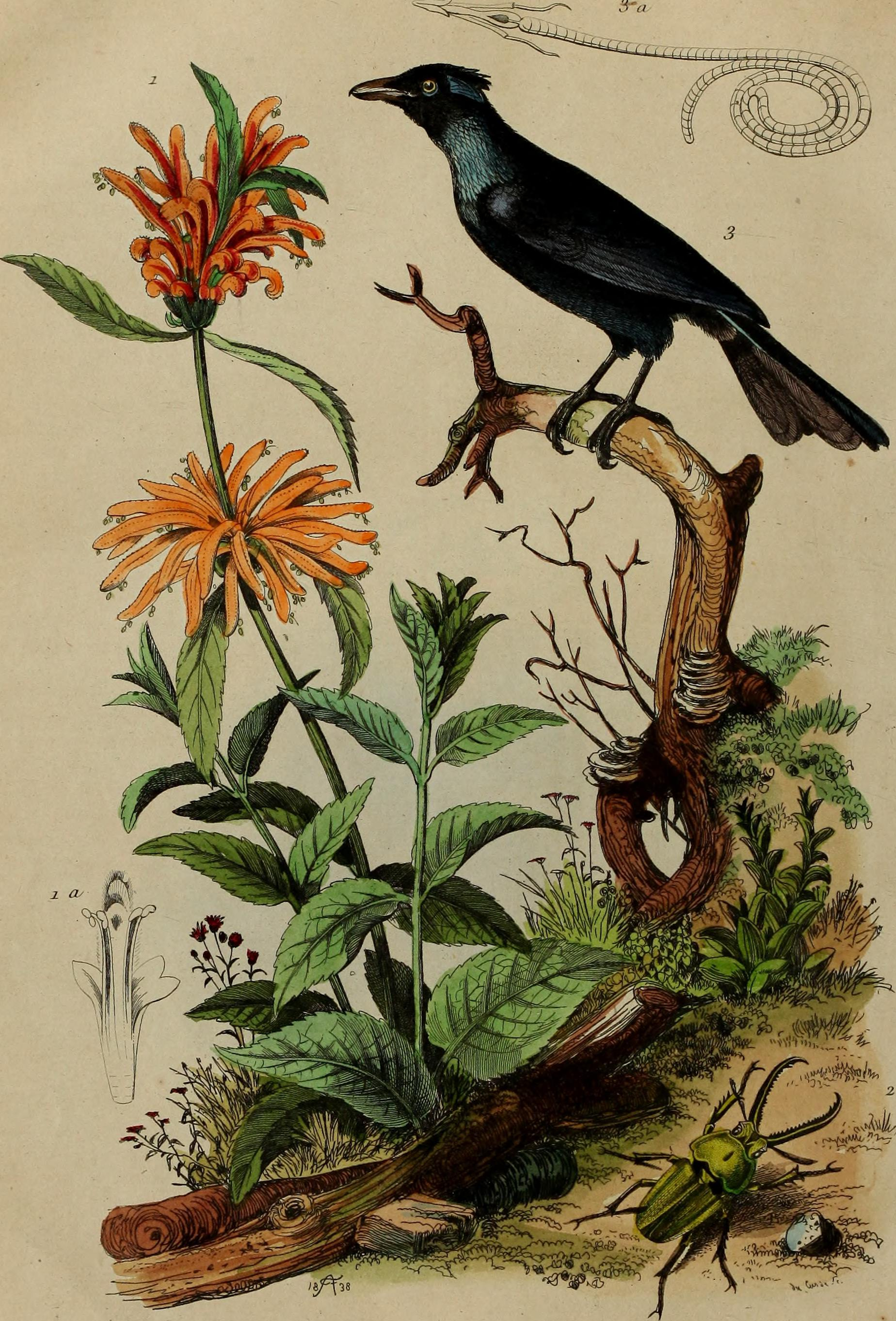 Title: Dictionnaire pittoresque d'histoire naturelle et des phénomènes de la nature Year: 1838 (1830s) Authors: Guérin-Méneville, F.-E. (Félix-Edouard) Subjects: Publisher: Paris Text Appearing Before Image: PI. 4-86. Sra Text Appearing After Image: j_ . Pliloiniie .Ph.oli3.ote .i. Ptonvgamè PHLO 389 PHLO ne devait pas lui appartenir ; il était réservé à unchimiste français, à notre savant Lavoisier. Lavoisier prouva , par de nombreuses et bellesrecherches sur la nature et la cause de loxidationet de lacidification des corps combustibles, queloxygène, loin de se combiner avec le Phlogisti-que, comme le disait Schéele, pour se dégagerensuite sous forme de calorique et de lumière ,était absorbé, et que son absorption augmentaitdautant le poids du corps qui avait subi la com-bustion. De là la nouvelle direction imprimée h lascience par le vaste génie du chimiste français ; delà aussi la nouvelle théorie quil établit en 1789,théorie qui, dans le principe, fut appelée anti-phlogistique, puis pneumatique. (F. F.) PHLOIOTRIBES. P/doiotribes. ( ins. ) Genrede lordre des Coléoptères, section des Pentamè-res, familles desXylophages, tribu des Scolytaires,établi par Latreille, et qui diffère de tous les au-tres ge